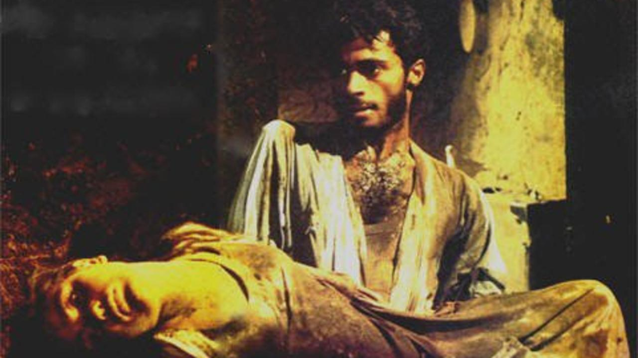 The scene in which Saad (played by Abdalla Mahmoud) kills Farhana (played by teen icon at the time, Sherihan).